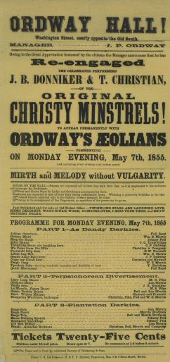 Ordway Hall! Washington Street, nearly opposite the Old South. Manager--J.P. Ordway Owing to the great approbation bestowed by the citizens the manager announces that he has re-engaged the celebrated performers J.B. Donniker & T. Christian, of the original Christy Minstrels! to appear permanently with Ordway's Aeolians commencing on Monday evening, May 7th, 1855. ...